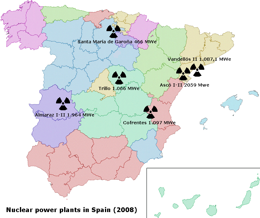 Nuclear power plants in Spain